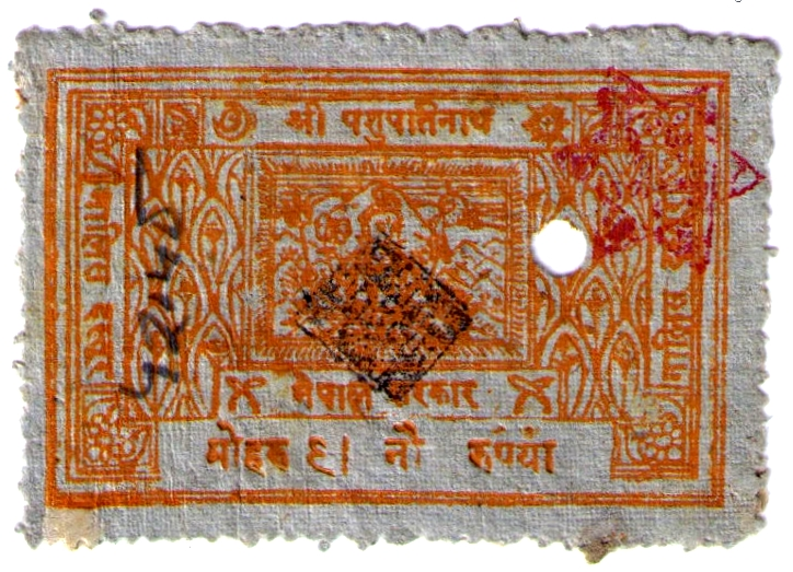 Nepal 9 rupees revenue stamp for court fees. At top - Shri Pashupatenath. At both sides - the same - Nalees Dastur (both words means law). At the bottom - Nepal Sarkar (Nepal Service) and the lowest panel contains Moharu (Price) and denomination.